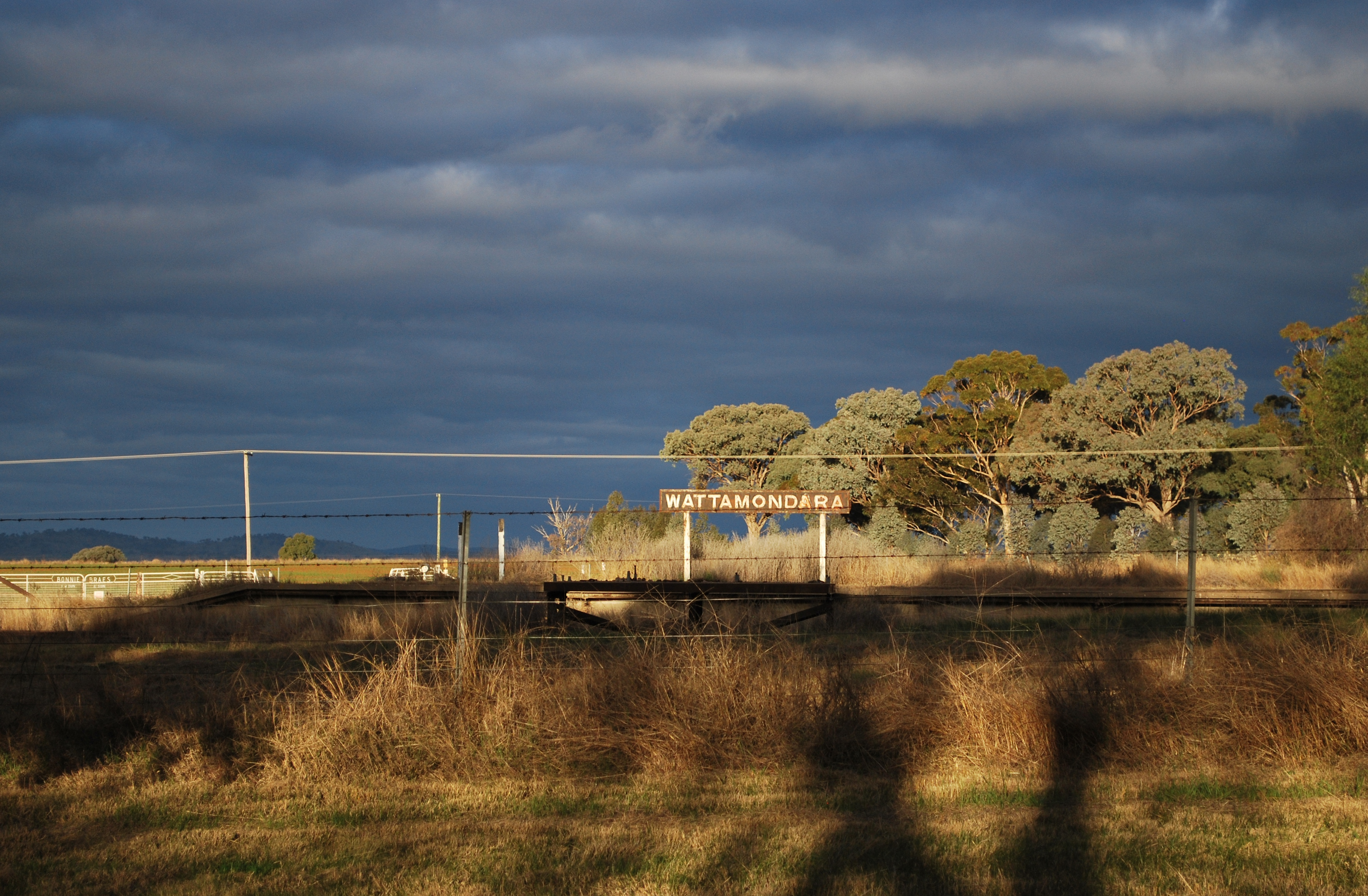 Rail siding at Wattamondara, New South Wales